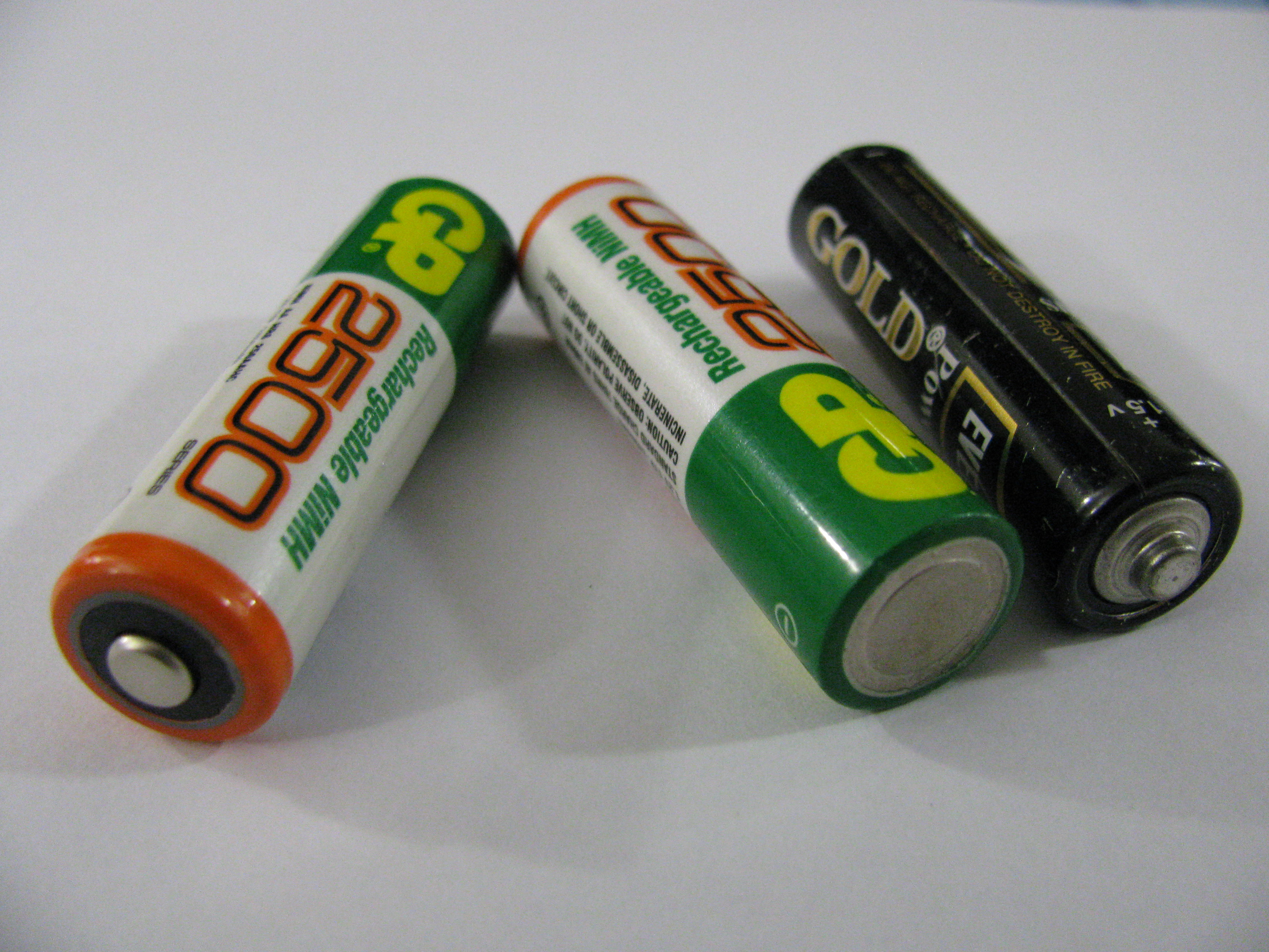 Three batteries